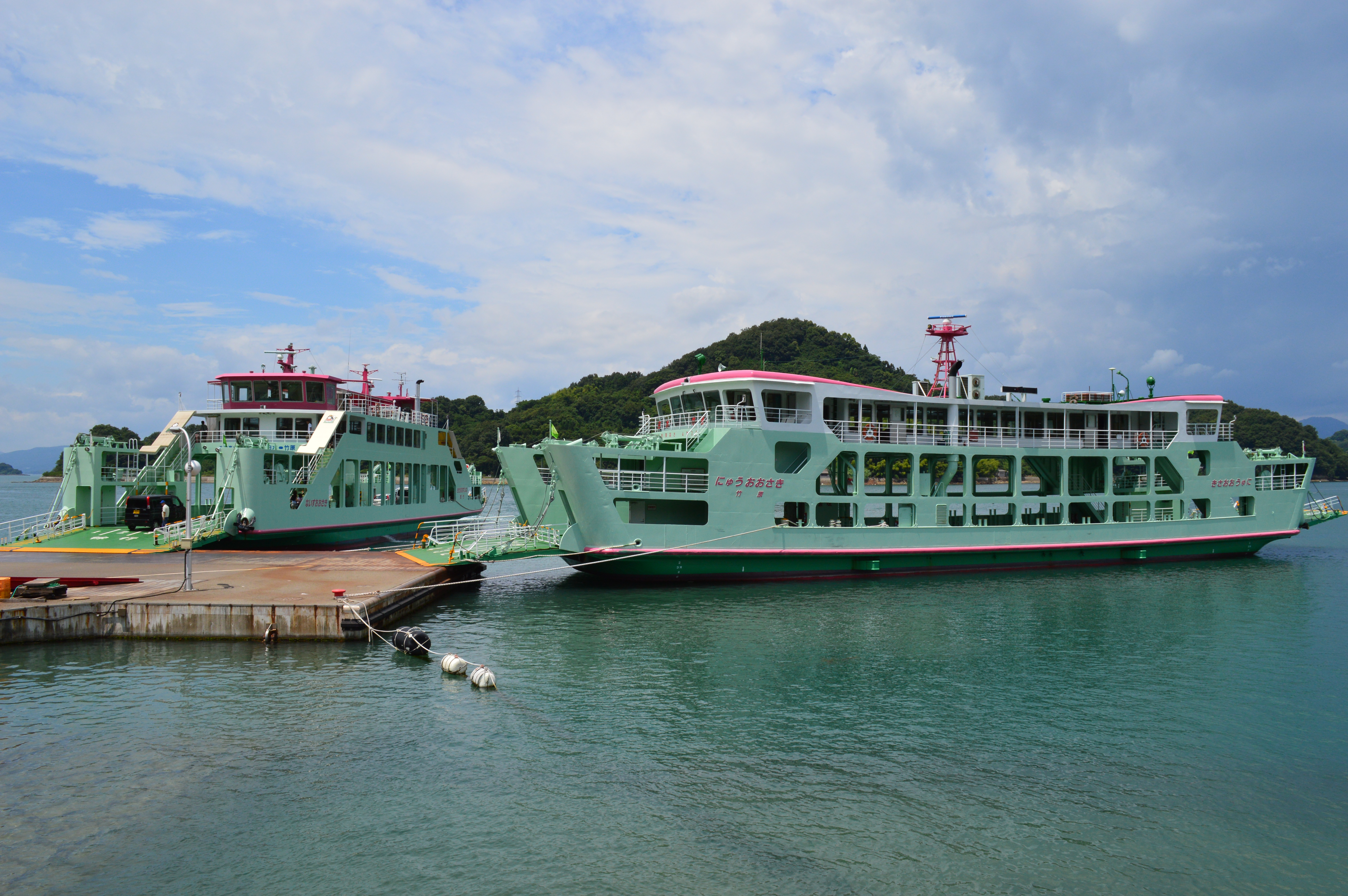 RoRo/passenger ship Nice Oosaki and New Oosaki of Oosaki Kisen, at the Port of Shiromizu.